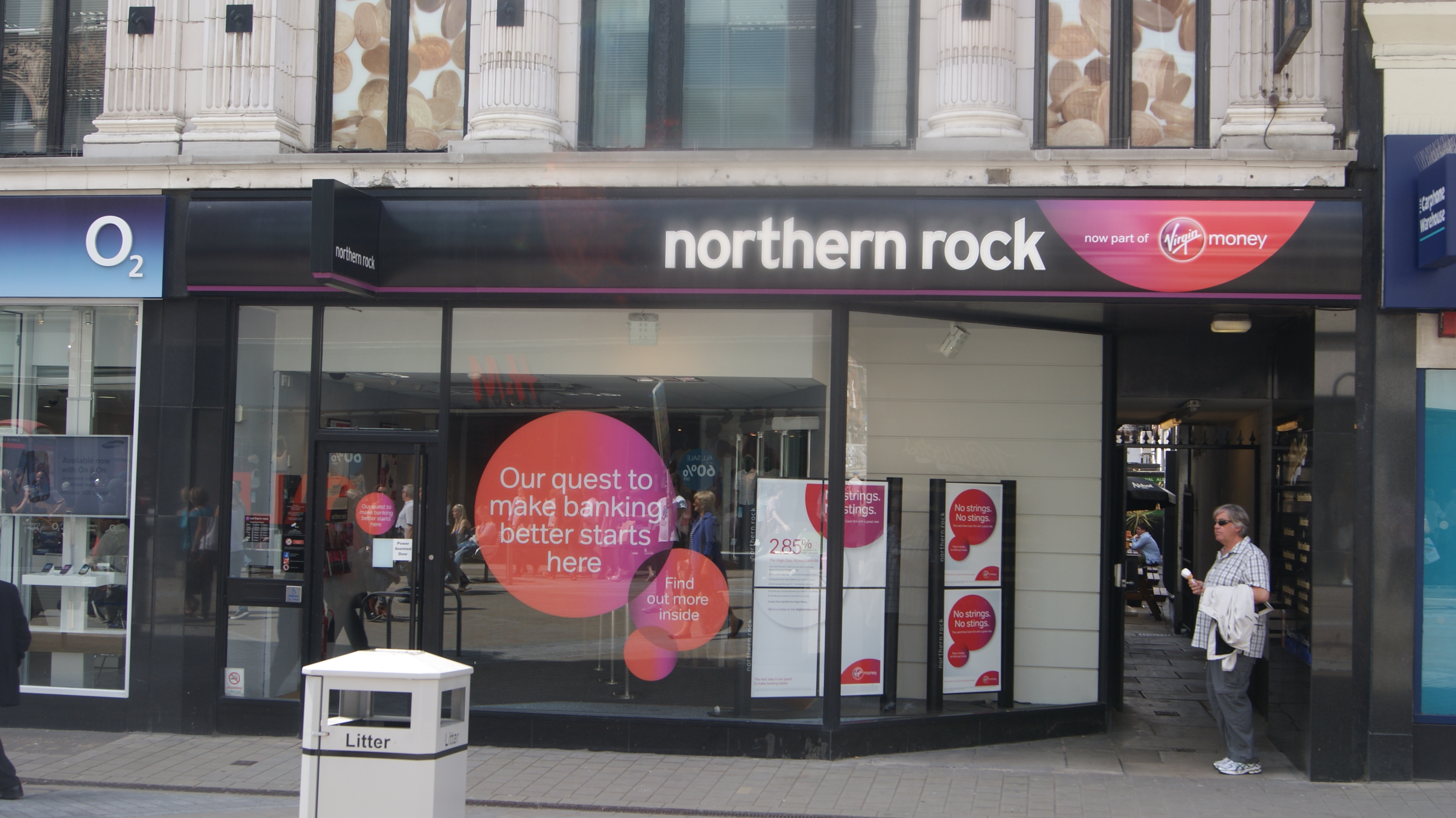 Northern Rock (now wirh Virgin Money branding) Briggate in Leeds, West Yorkshire. Taken on the afternoon of Wednesday the 20th of June 2012.